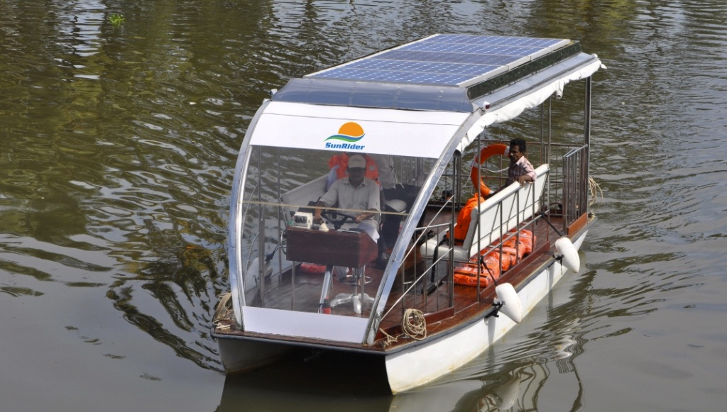 During trials in Kerala backwaters